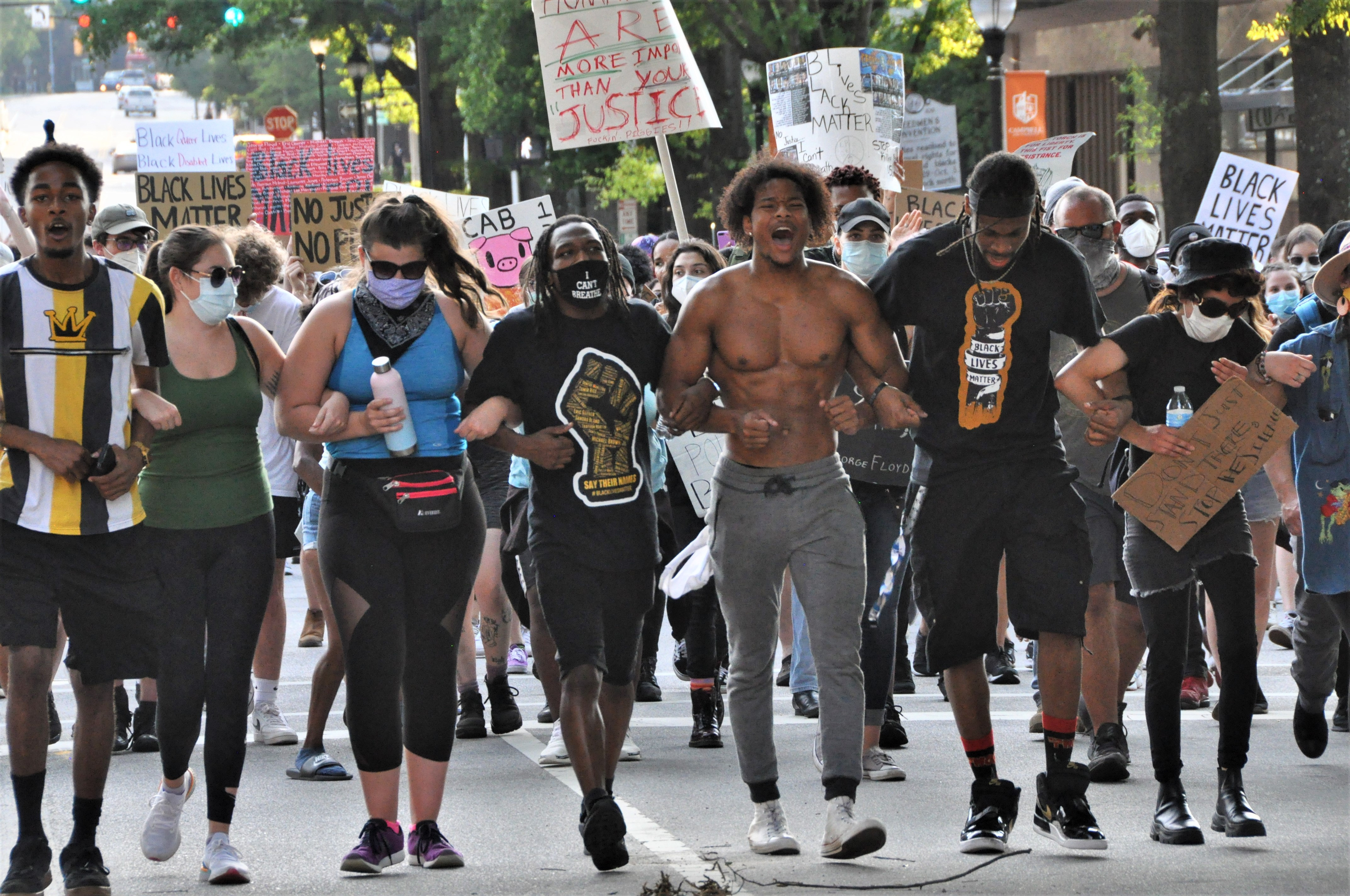 Raleigh Protests 6/2/2020